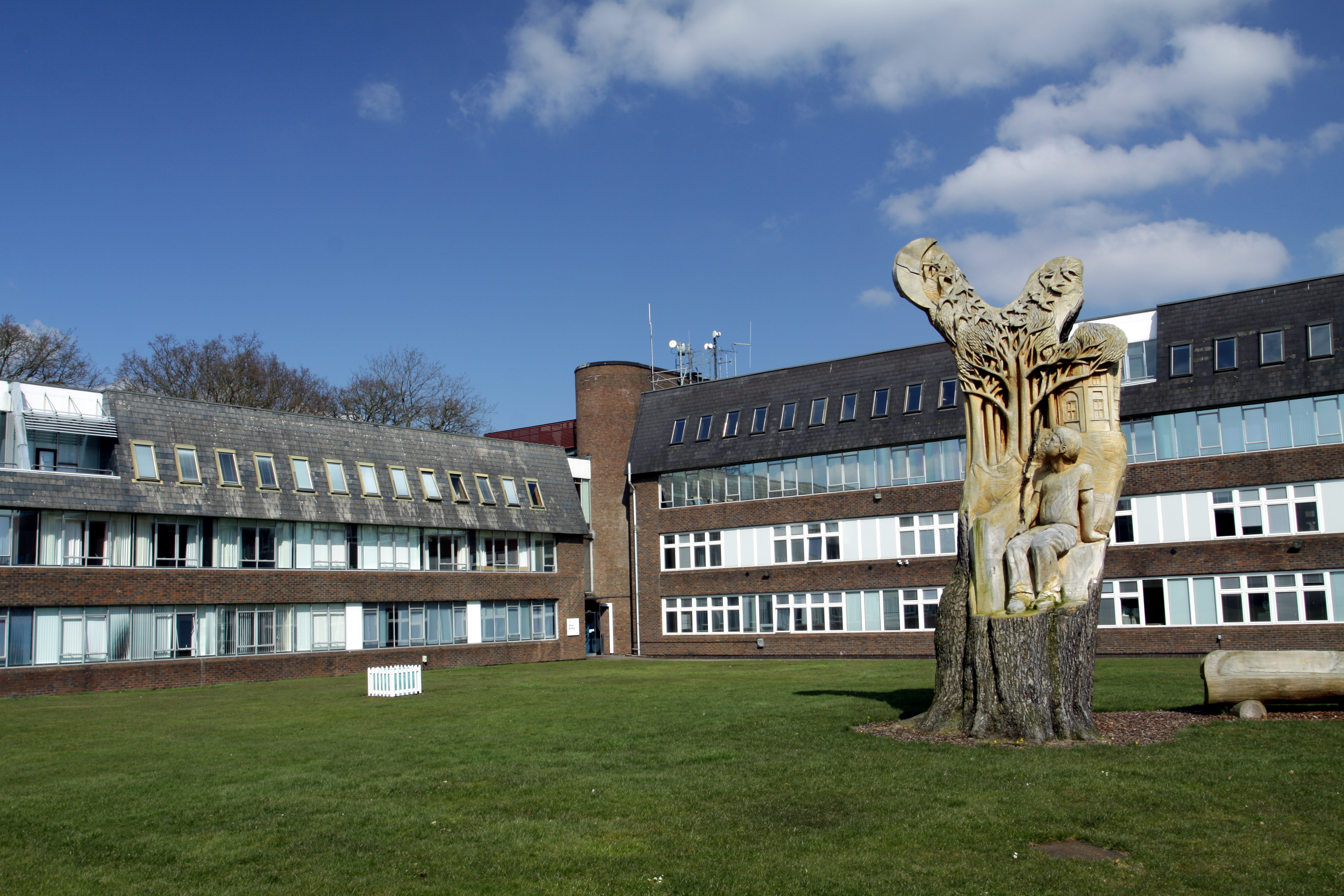 Wilson building at Open University Campus in Milton Keynes, Great Britain.